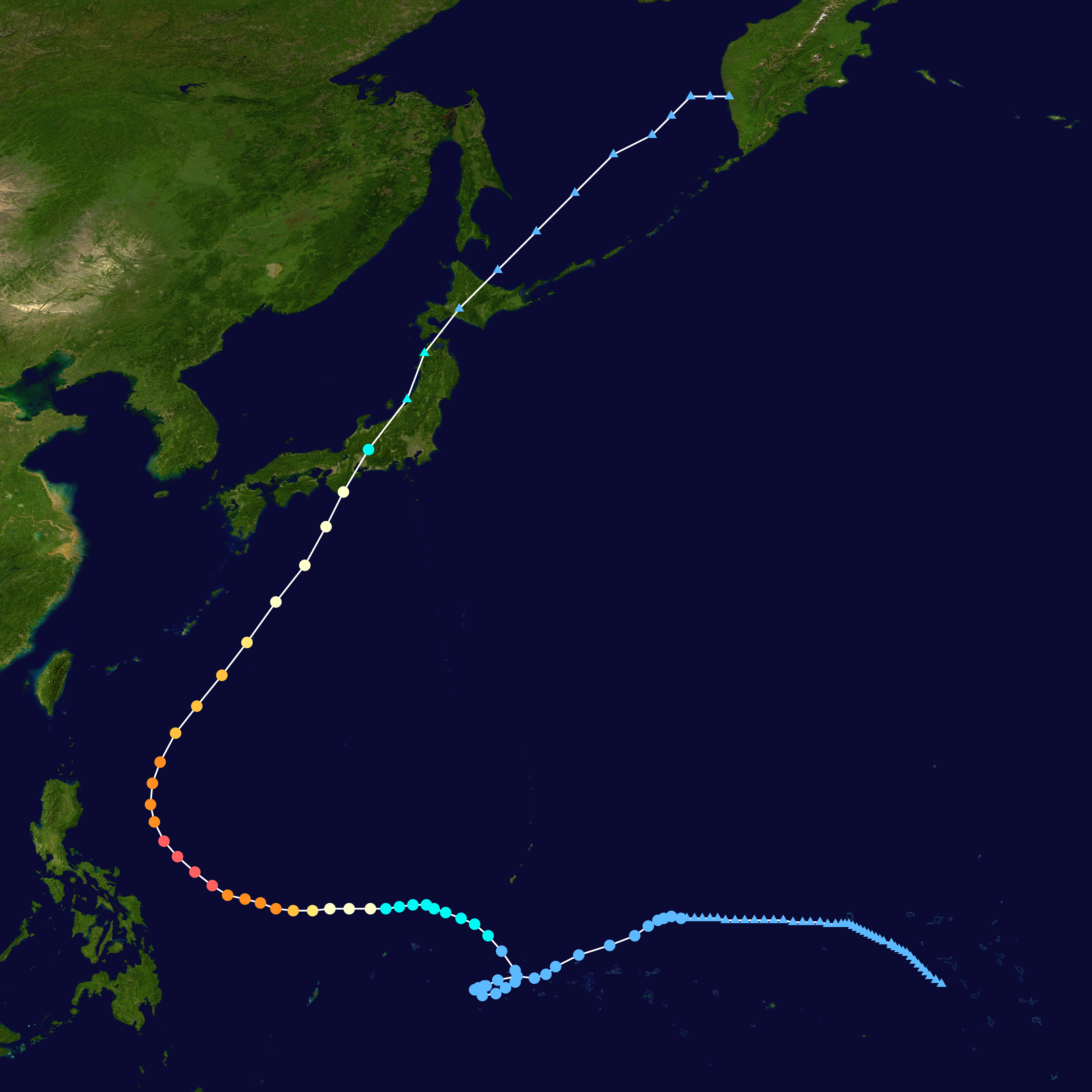 Typhoon Page 1990 track. Uses the color scheme from the Saffir-Simpson Hurricane Scale.